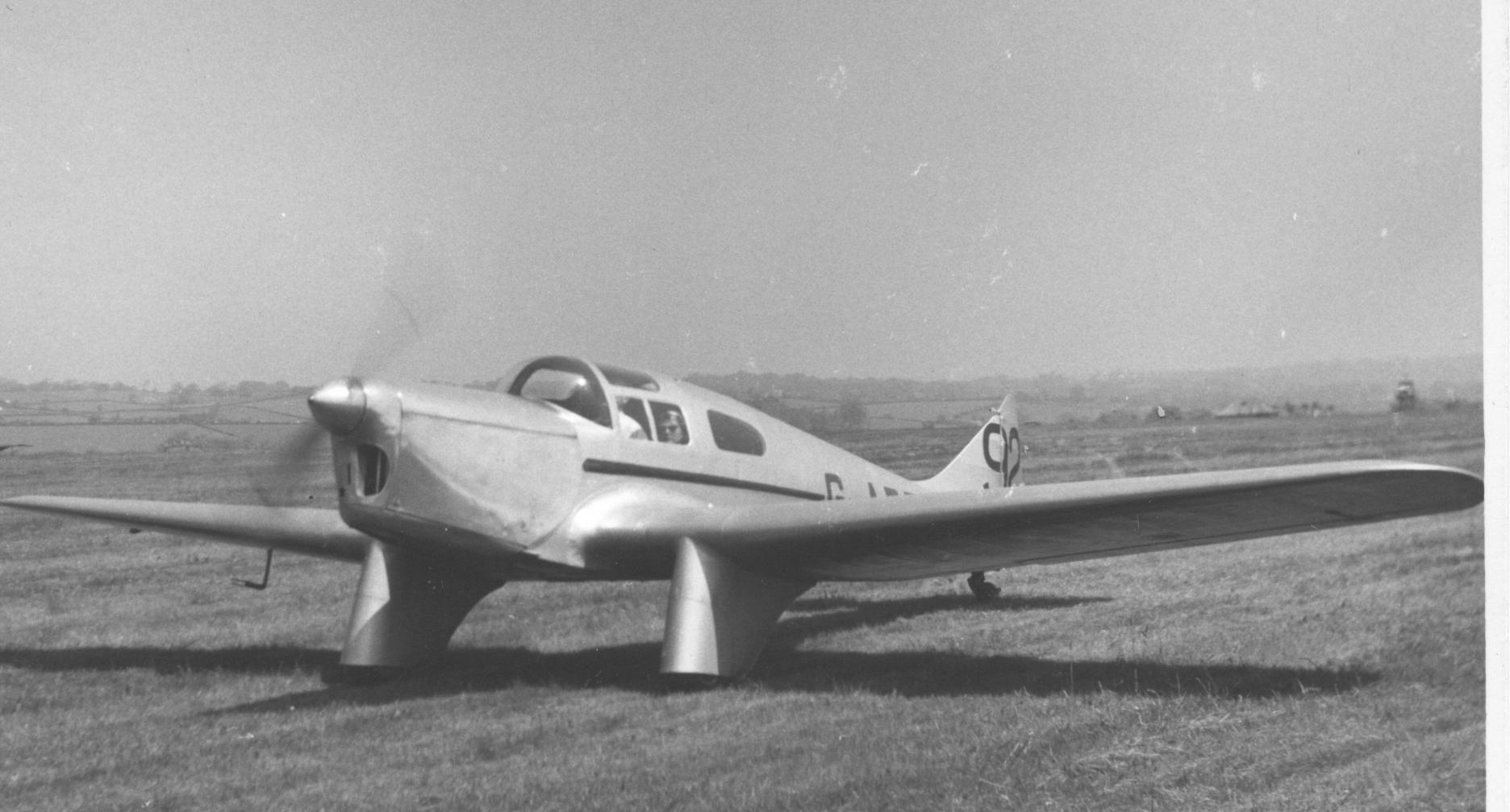 Miles M.3D Falcon Six wearing racing colours at Leeds (Yeadon) Airport in May 1955